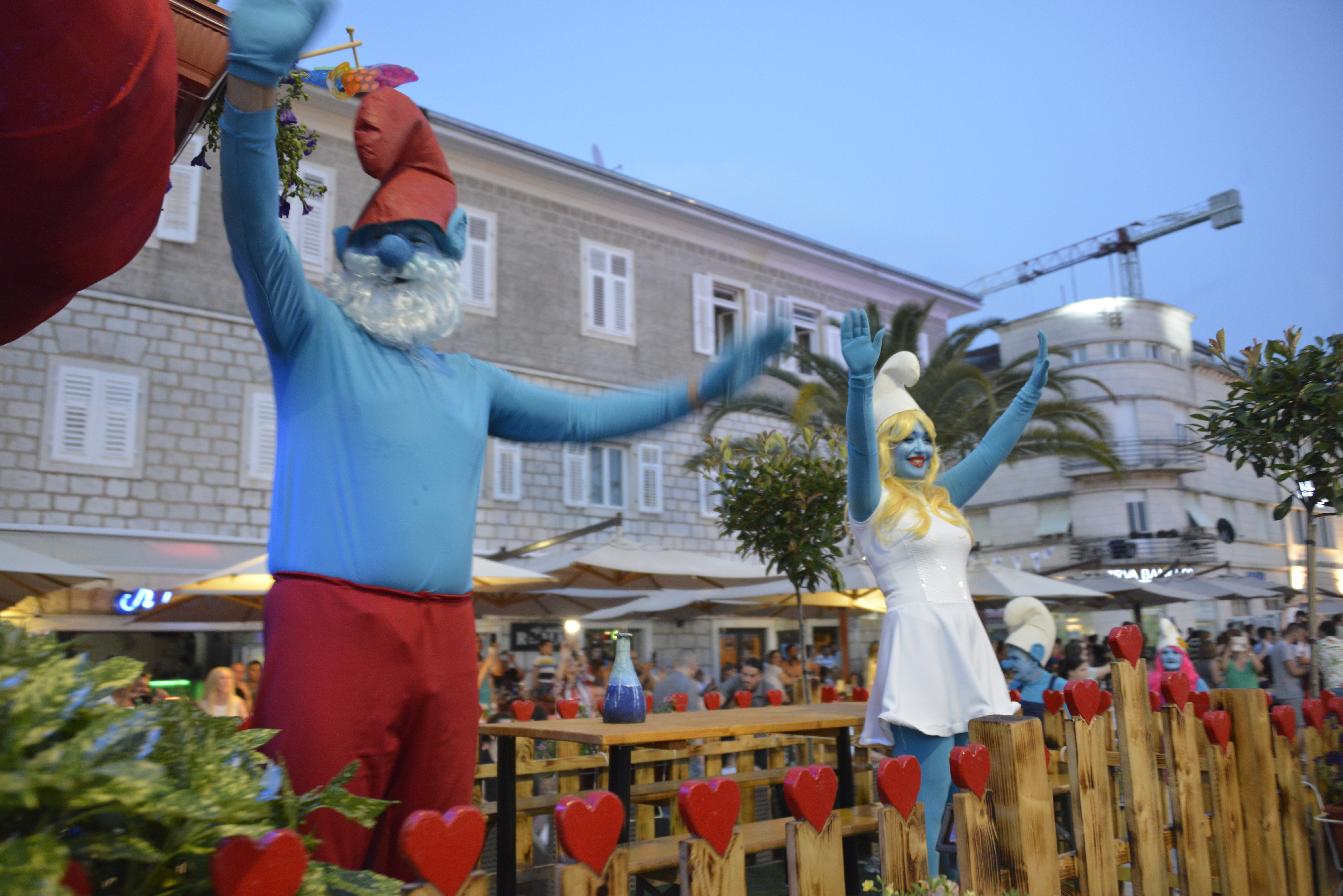 Carnival in Tivat in 2019, with the main stage in front of the ship "Jadran"